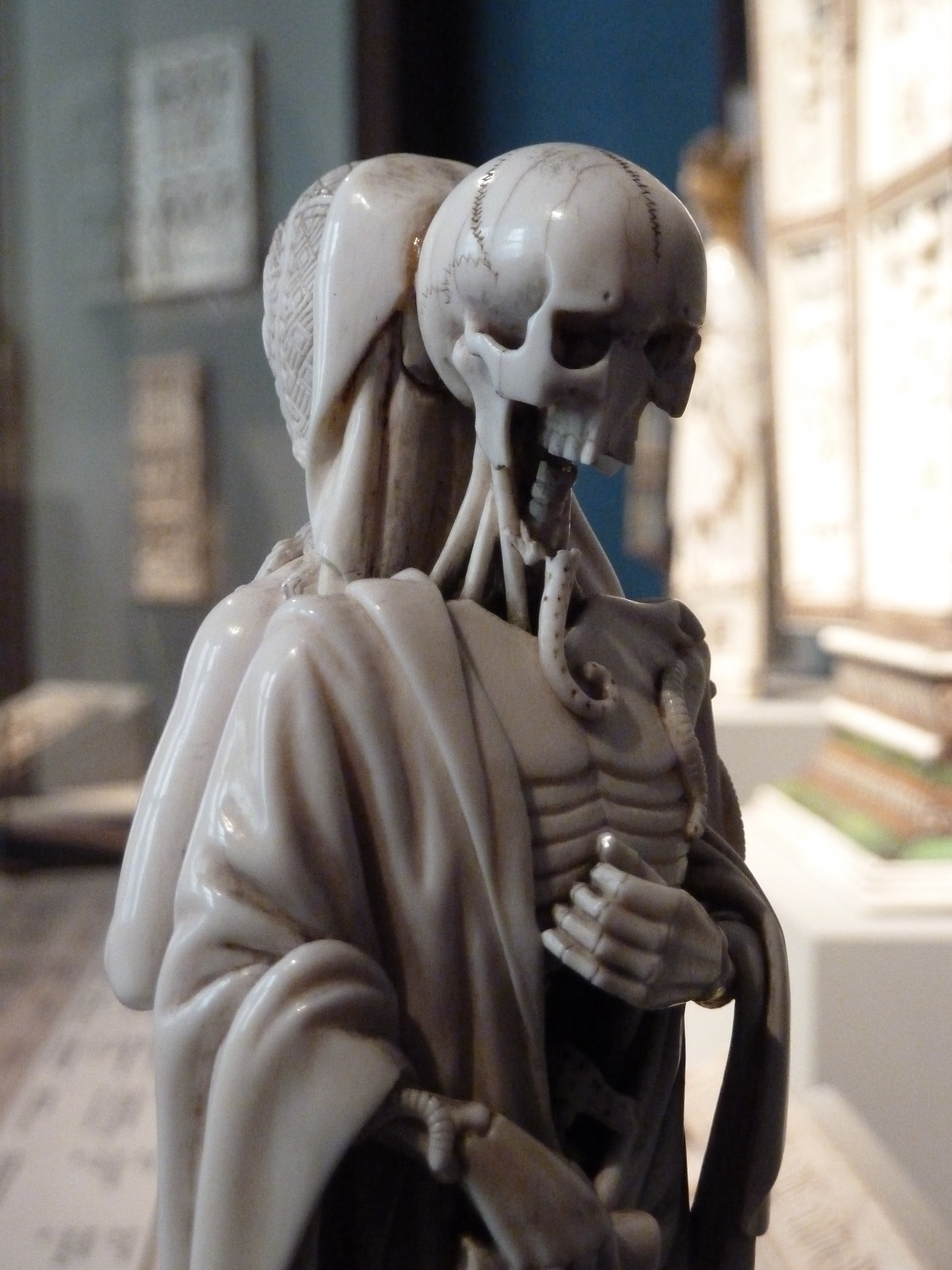 The Death and the Maiden; ma ivory Bode Museum, Berlin